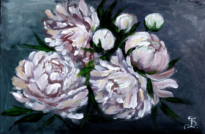 peonies